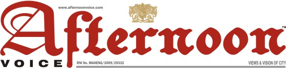 Afternoon Voice (Daily Newspaper) Logo